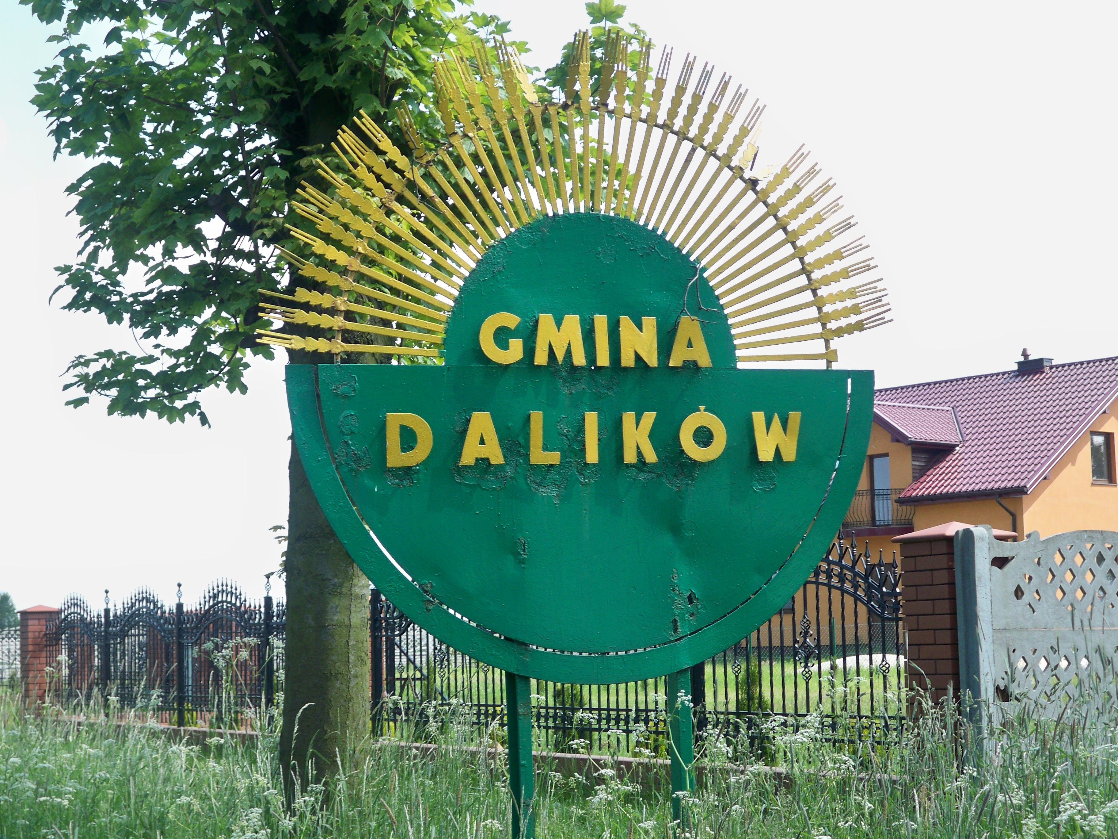 My photo